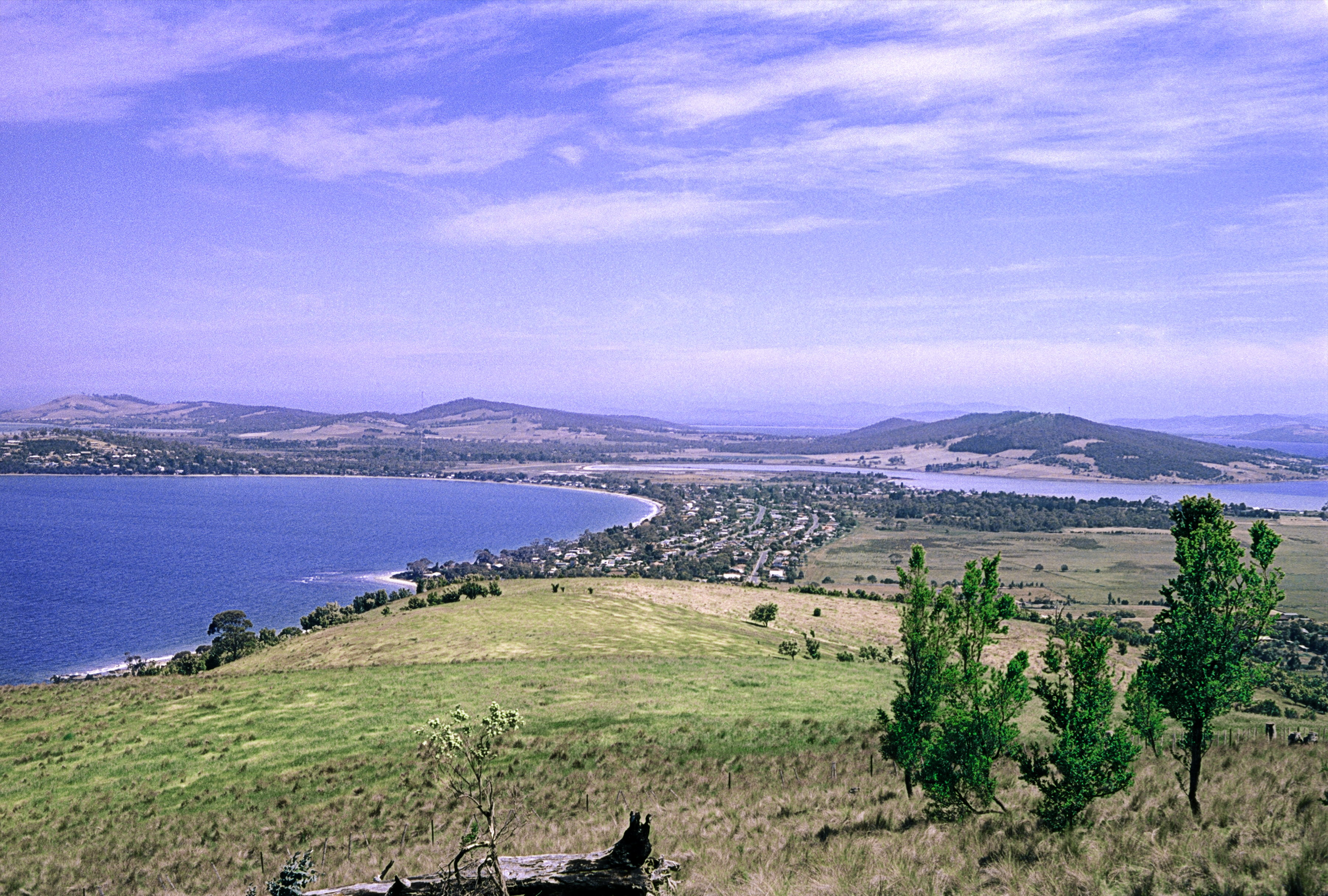 Lauderdale, Tasmania taken from Single Hill which is to the North of Lauderdale/Roches Beach and more or less between those towns and the town of Seven Mile Beach. As well as Lauderdale the view includes part of the south arm peninsula and note the ABC radio mast rising from the plain just beyond the town of Lauderdale.